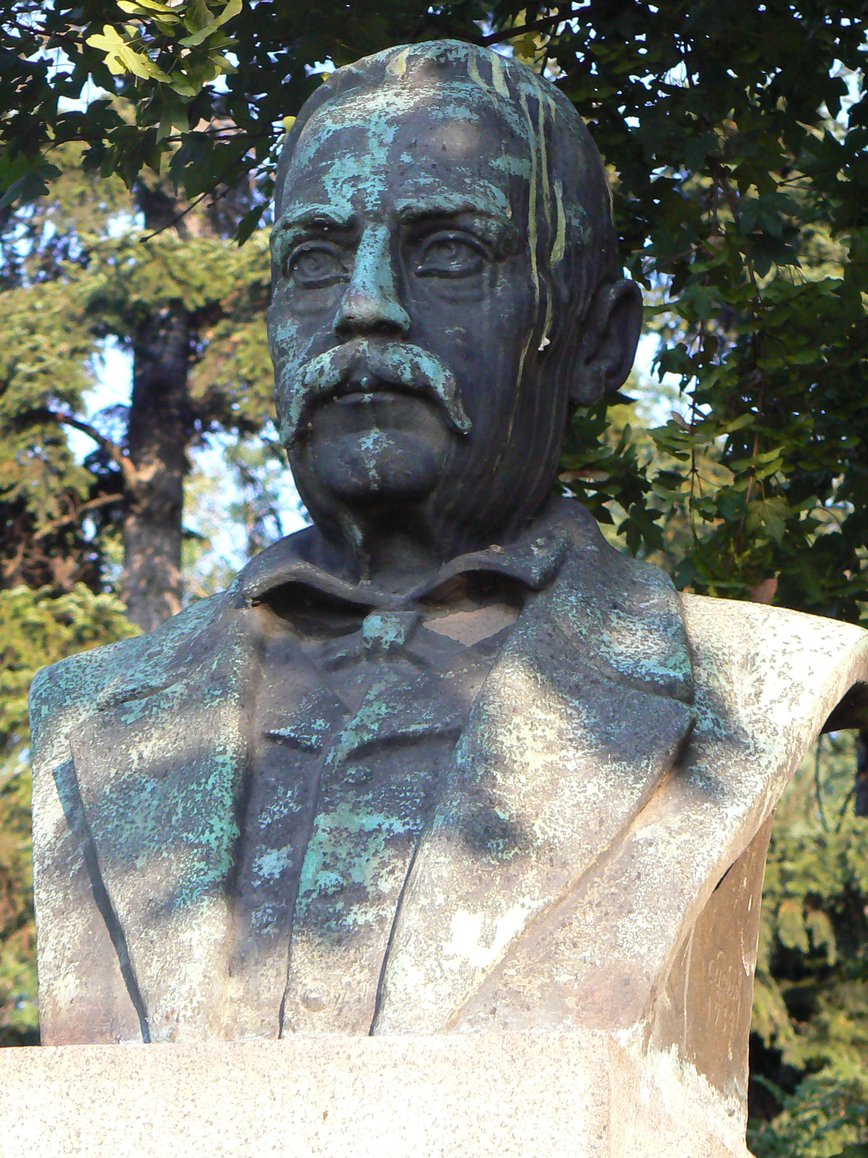 Monument of Dobri Jelyazkov, The Factory man (1800-1865), who was founder of the first factory in the Ottoman empire in 1833. Borisova garden, Sofia, Bulgaria